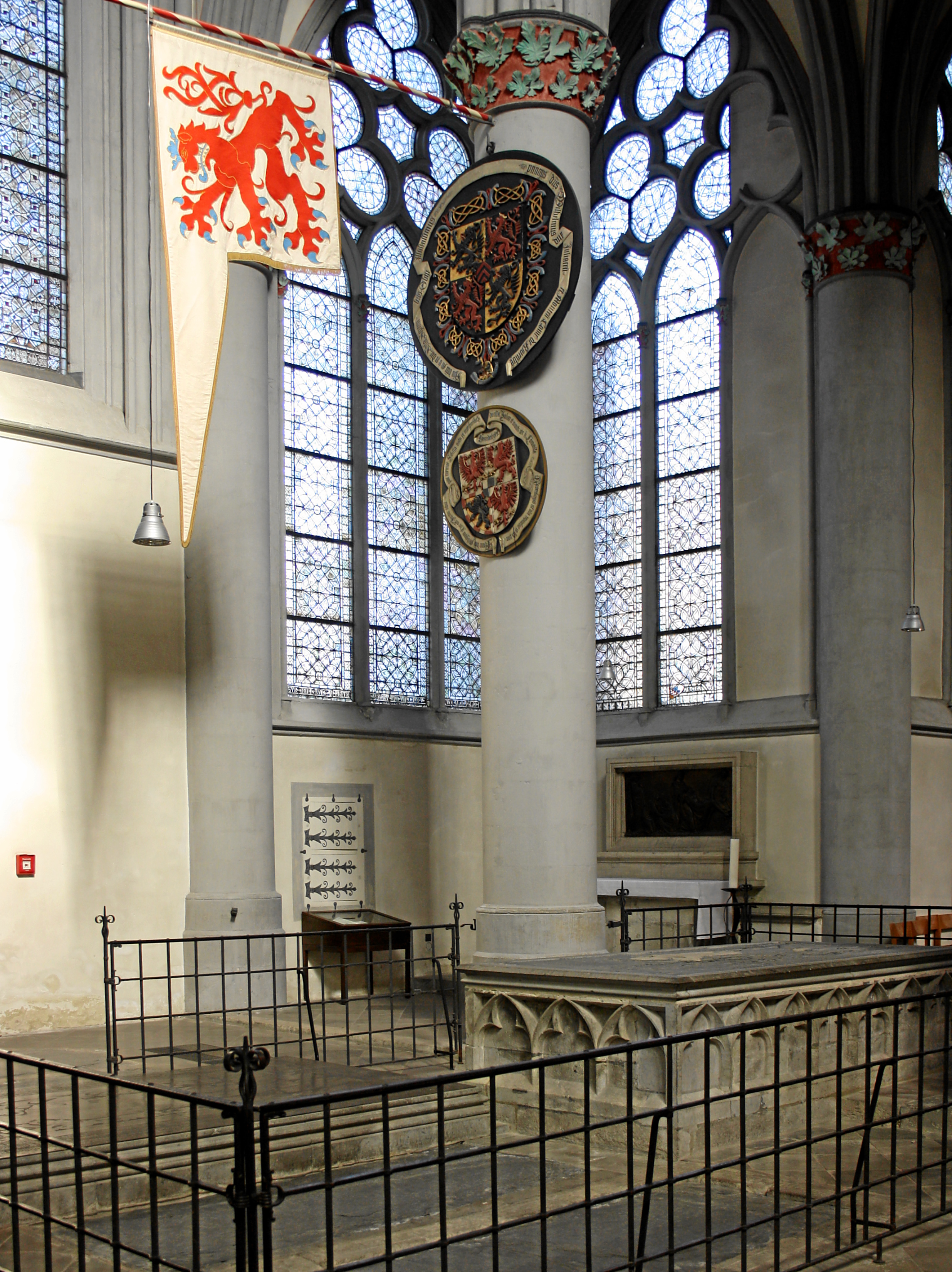 "Bergischer Dom" in Odenthal-Altenberg, Germany. Northern transept with graves of the house of Berg, so called "Herzogenchor".